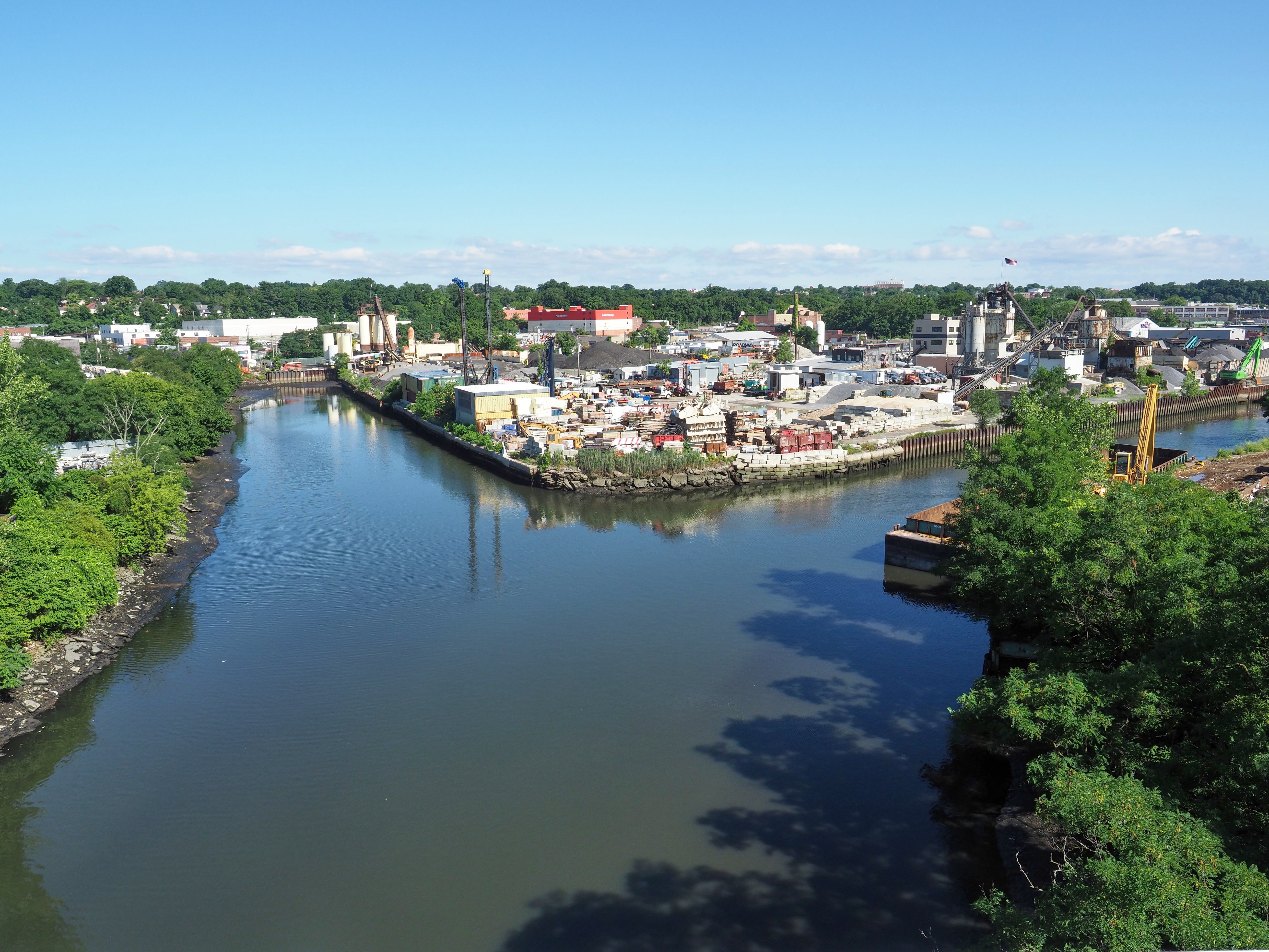 Looking towards Mt. Vernon, NY. Main channel of the river is to the right.